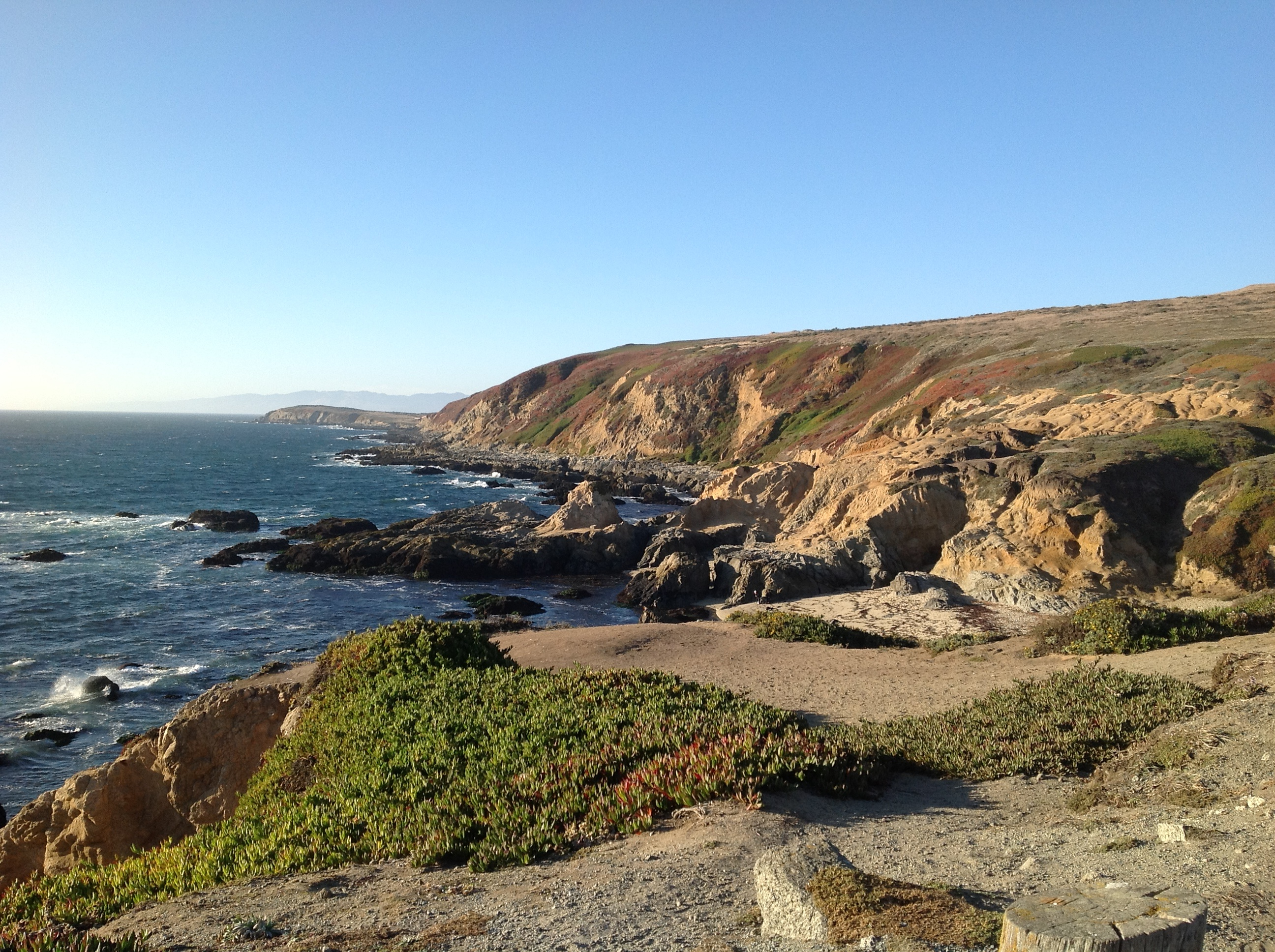 Bodega Bay ,CA